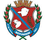 Coat of arms of the city of Botumirim, Minas Gerais, Brazil.